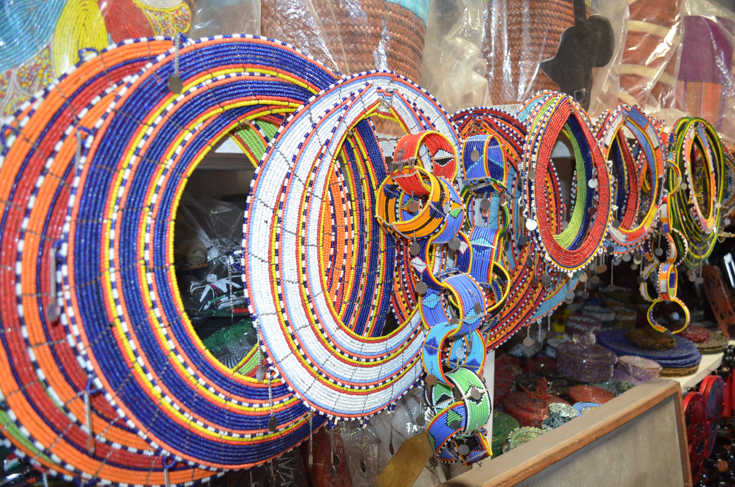 Beaded necklaces from Maasai people in Tanzania This is an image of Cultural Fashion or Adornment from Tanzania